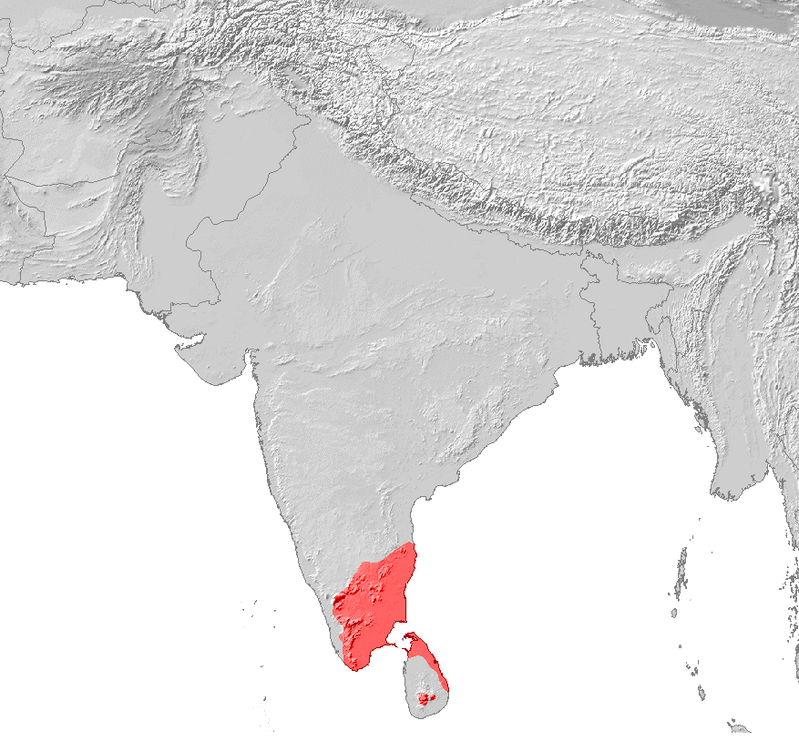 Area within South Asia where Tamil language is spoken